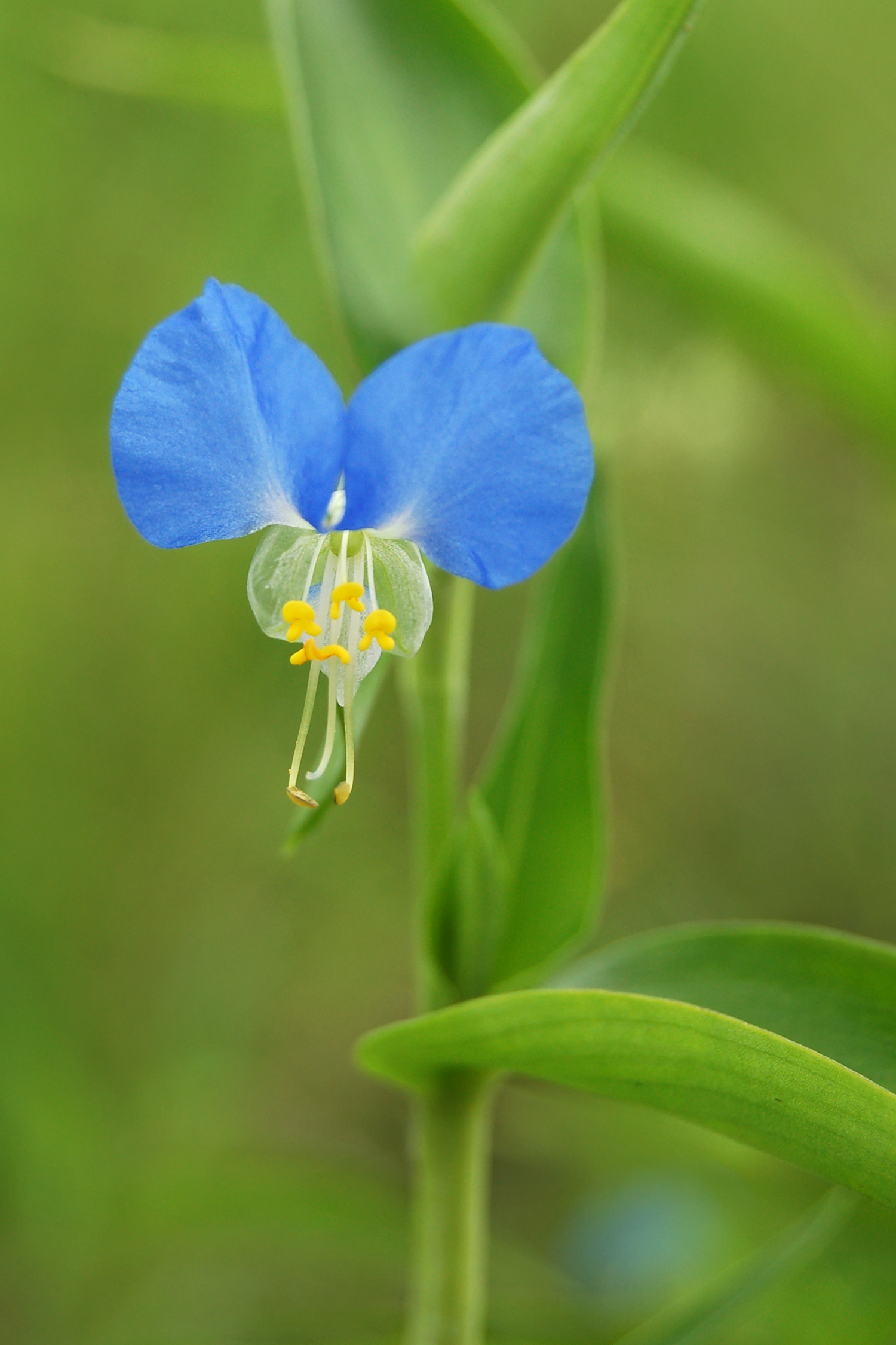 Asiatic dayflower (Commelina communis) found in Biei, Hokkaido, Japan.